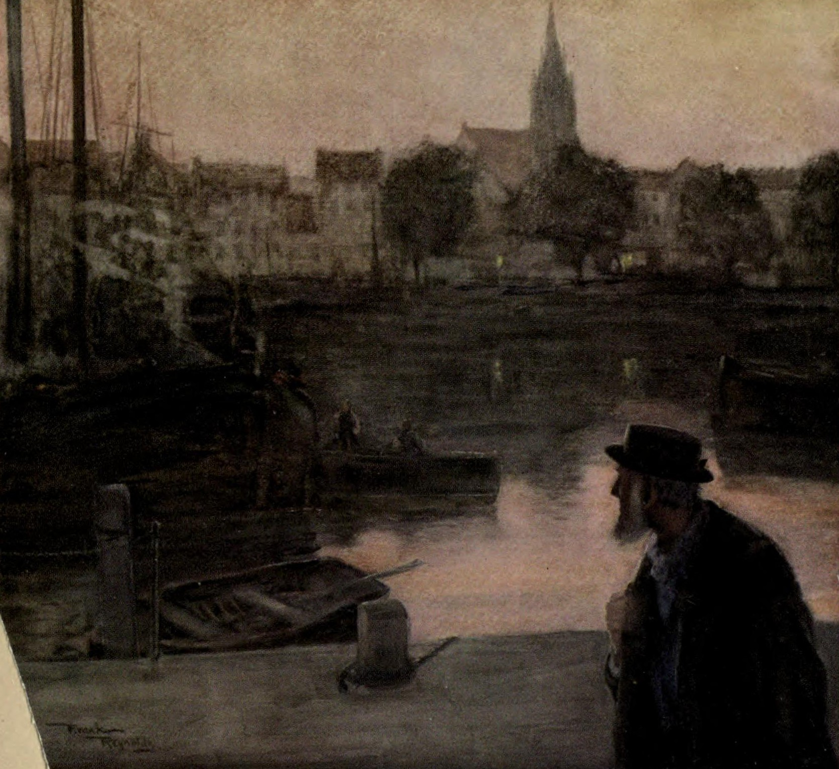 Daniel Peggotty a character in Charles Dickens' David Copperfield. "Often and often, now, I had seen him in the dead of night passing along the streets, searching, among the few who loitered out of doors at those untimely hours, for what he dreaded to find." (Ch. XLVI "Intelligence")